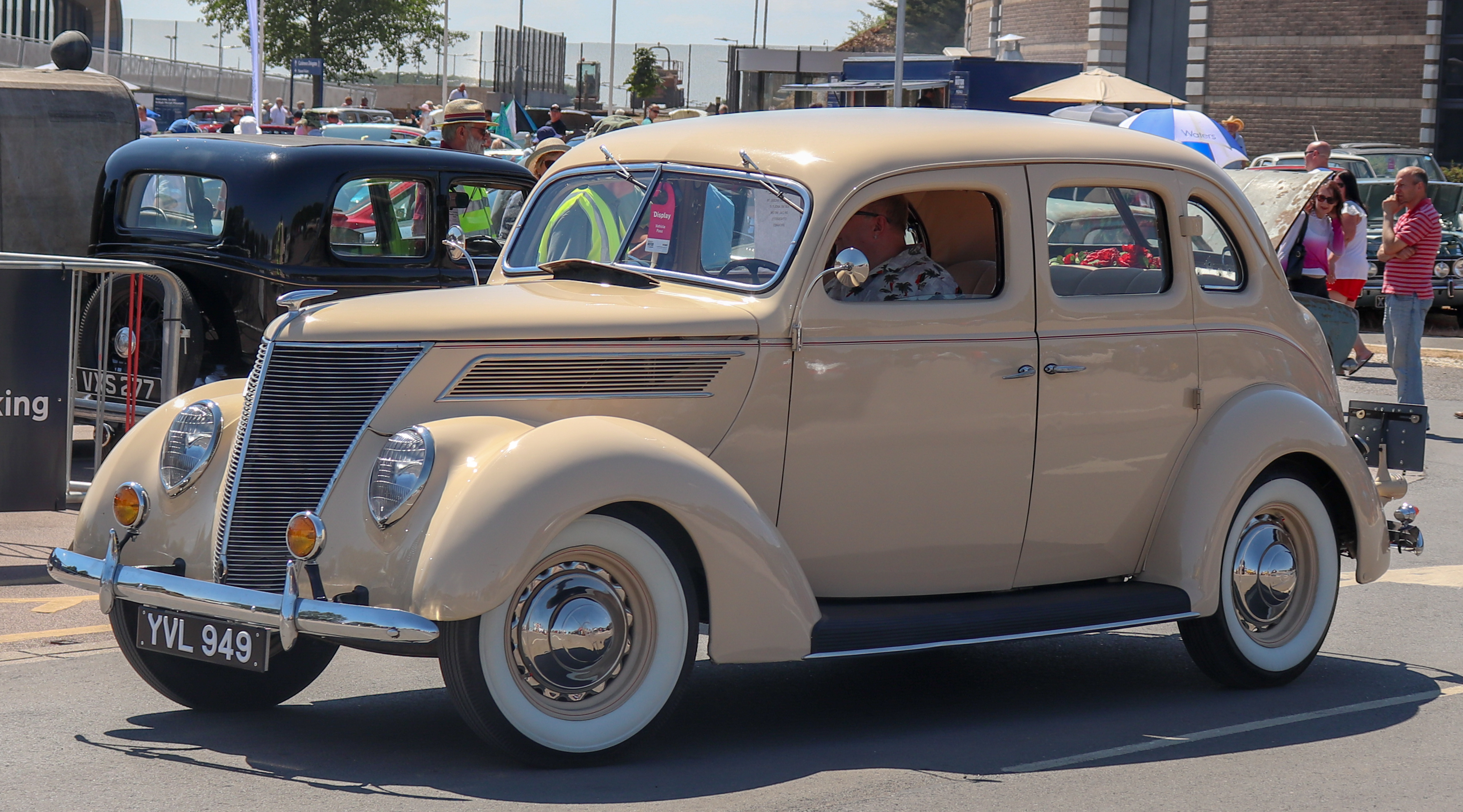 1937 Ford V8 Model 78 Fordor 3.6 Taken at the British Motor Museum Old Ford Rally 2018, Gaydon